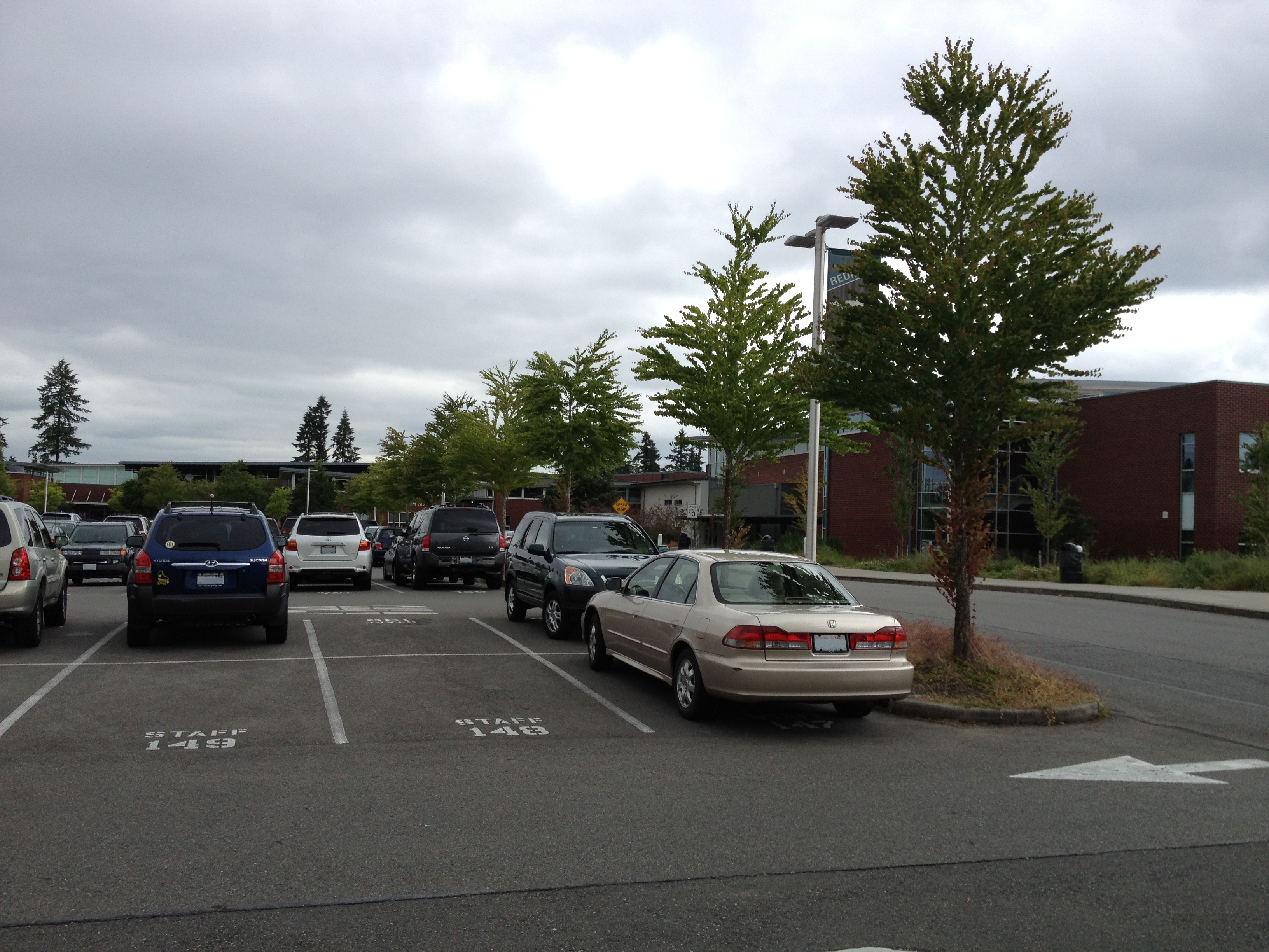 RHS Parking Lot